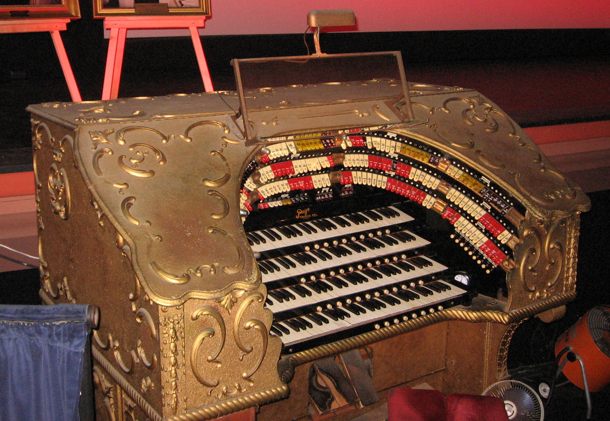 Pipe organ console of the Avalon Theater — in the Catalina Casino building, Catalina Island, California Page Organ, with portraits of Gaylord Carter and Bob Salisbury.